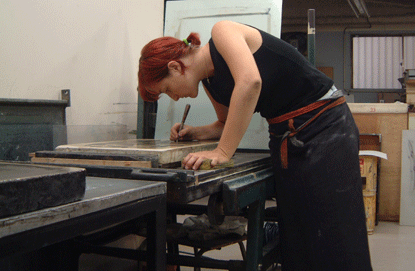 Colleen Corradi working on a litho stone in OM workshop, Tokyo-Yokohama